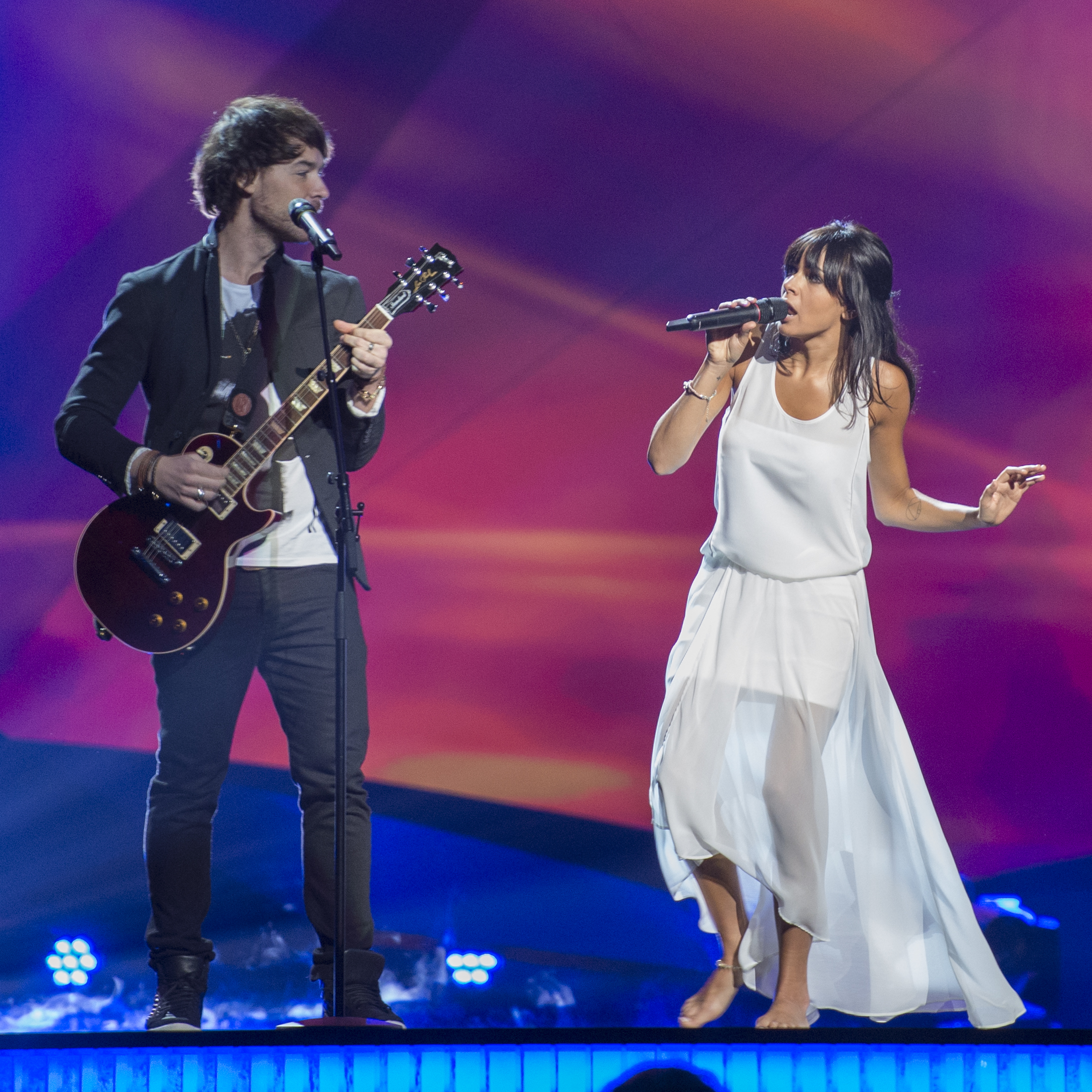 El Sueño de Morfeo representing Spain with the song "Contigo hasta el final" during the first dress rehearsal for "the Big Five" in the Eurovision Song Contest 2013 Malmö. (Help translate this text)